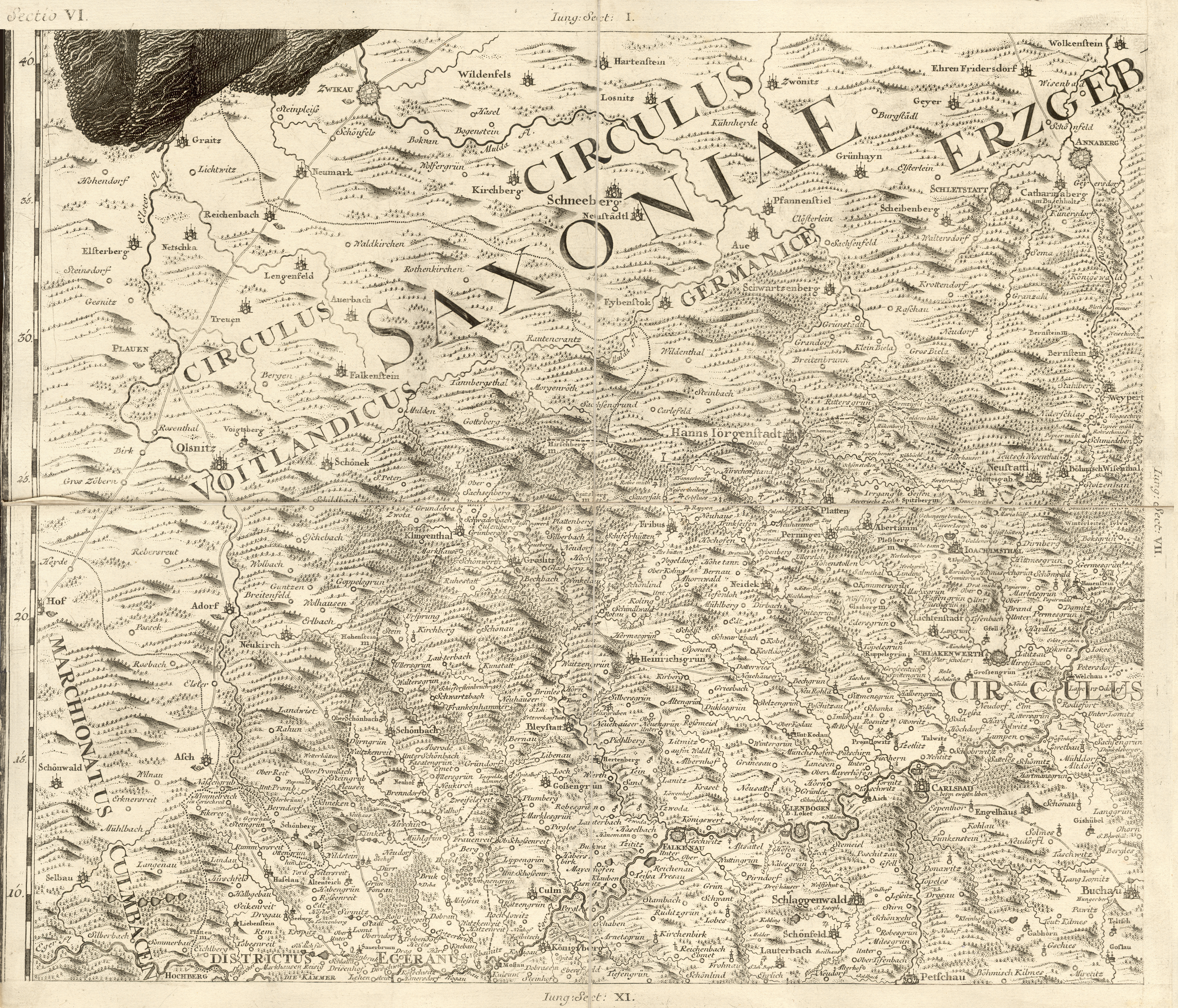 Müller's map of Bohemia.